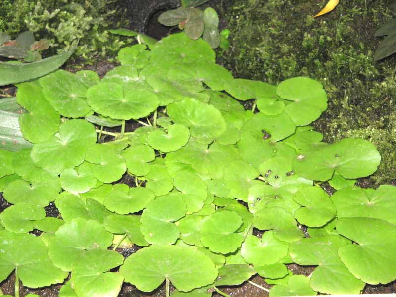 Cardamine lyrata in a terrarium. Note: Flickr doesn't offer to choose a GFDL license. So the official license is cc-by-2.0 But the author explicitely permitted others to use this photo as a GFDL photo, see the source page.